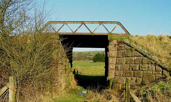 Accommodation bridge. Bridge carrying disused railway from Cheddleton to Cauldon/Waterhouses